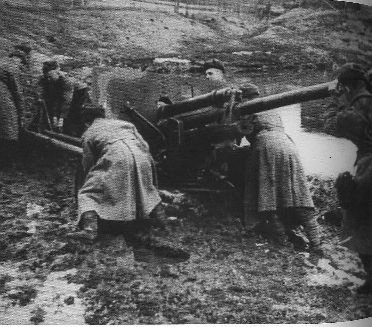 The Soviet gunners make the way through a dirt.